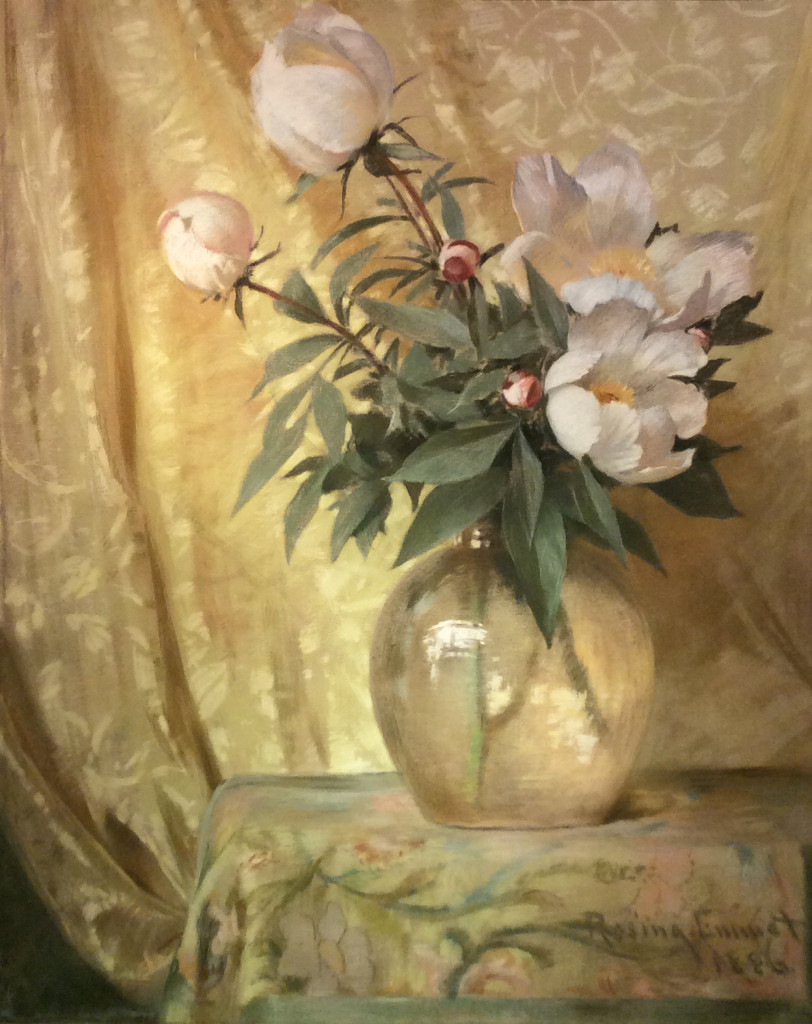 Peonies by Rosina Emmet, 1886, pastel, 30 x 25 inches (76.2 x 63.5 cm)